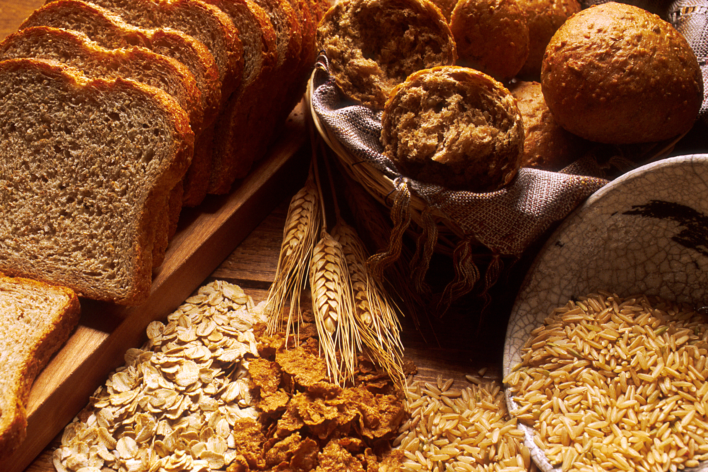 Title Bread and Grains Description A sliced loaf of brown bread, a basket of rolls and 4 types of grains sit on a wooden table. Topics/Categories Food and Drink Type Color, Photo Source National Cancer Institute